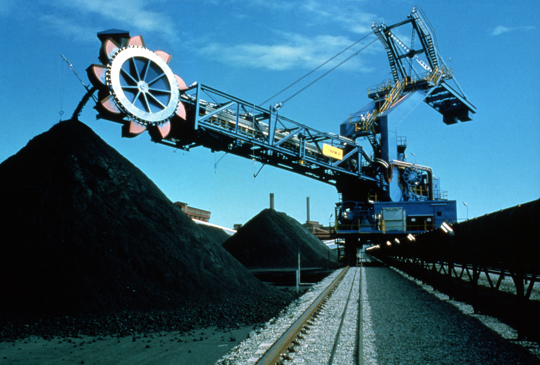 A coal dredge.